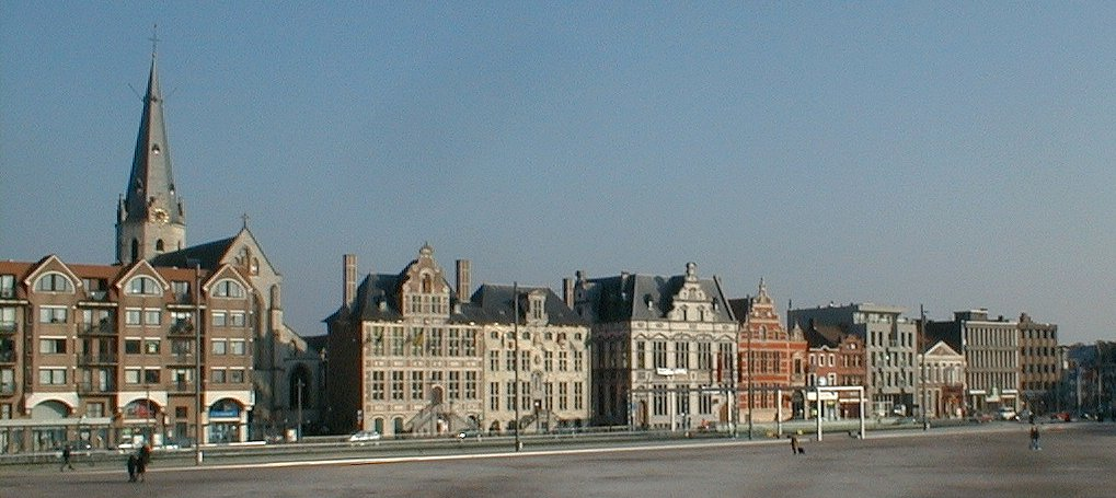 Sint-Niklaas Market Square.